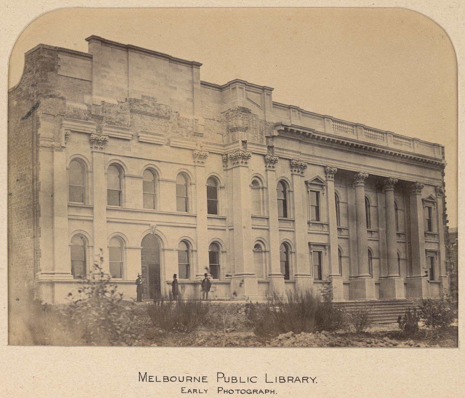 Unfinished facade of main entrance facing Swanston street.